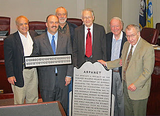 Steve Lukasik's personal photograph provided to and scanned by Anthony M Rutkowski for universal public domain use.